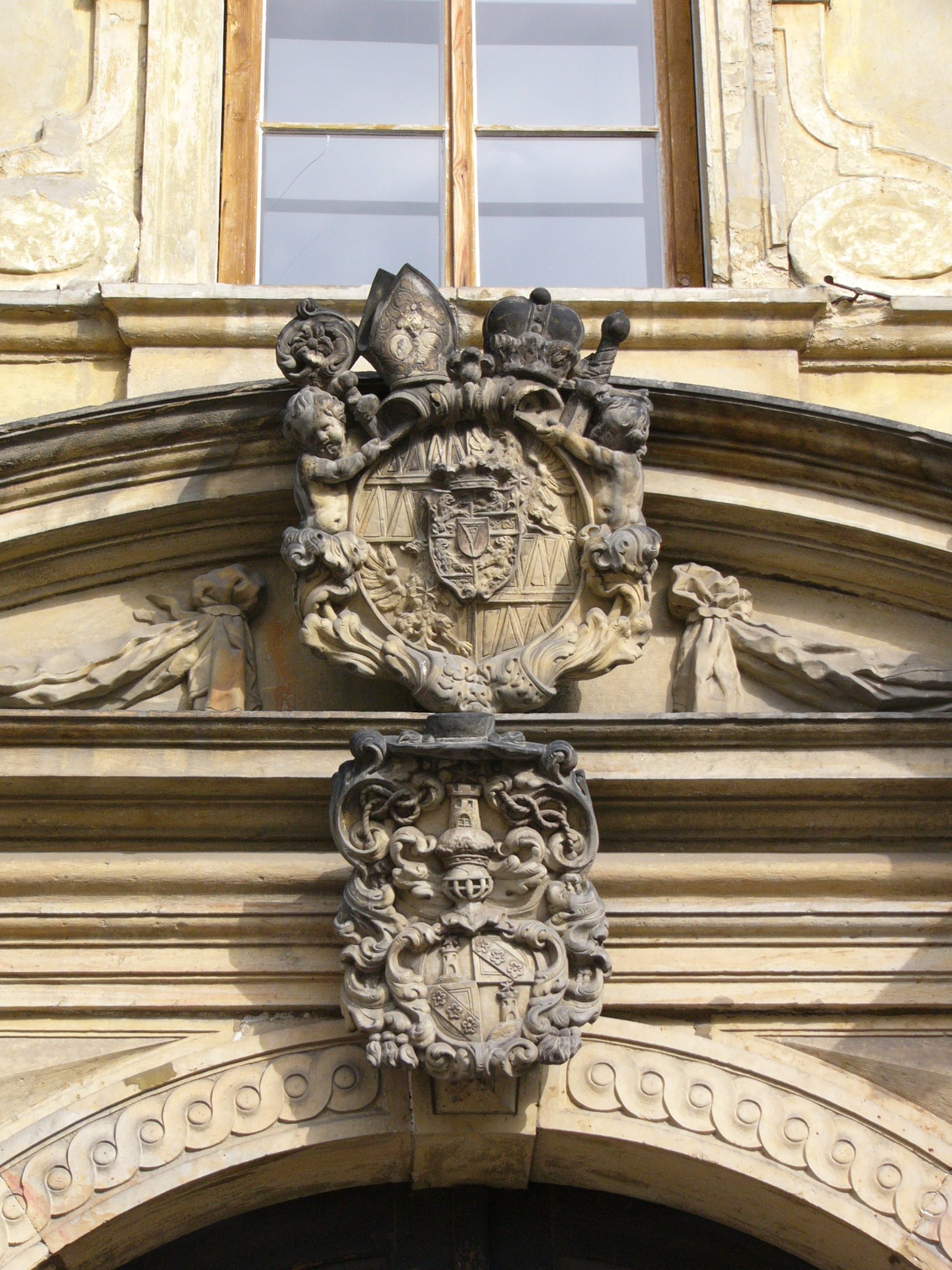 Coat of arms in Olomouc (Czech Republic) in 13 Wurmova street: upper Coat of arms: bishop (in